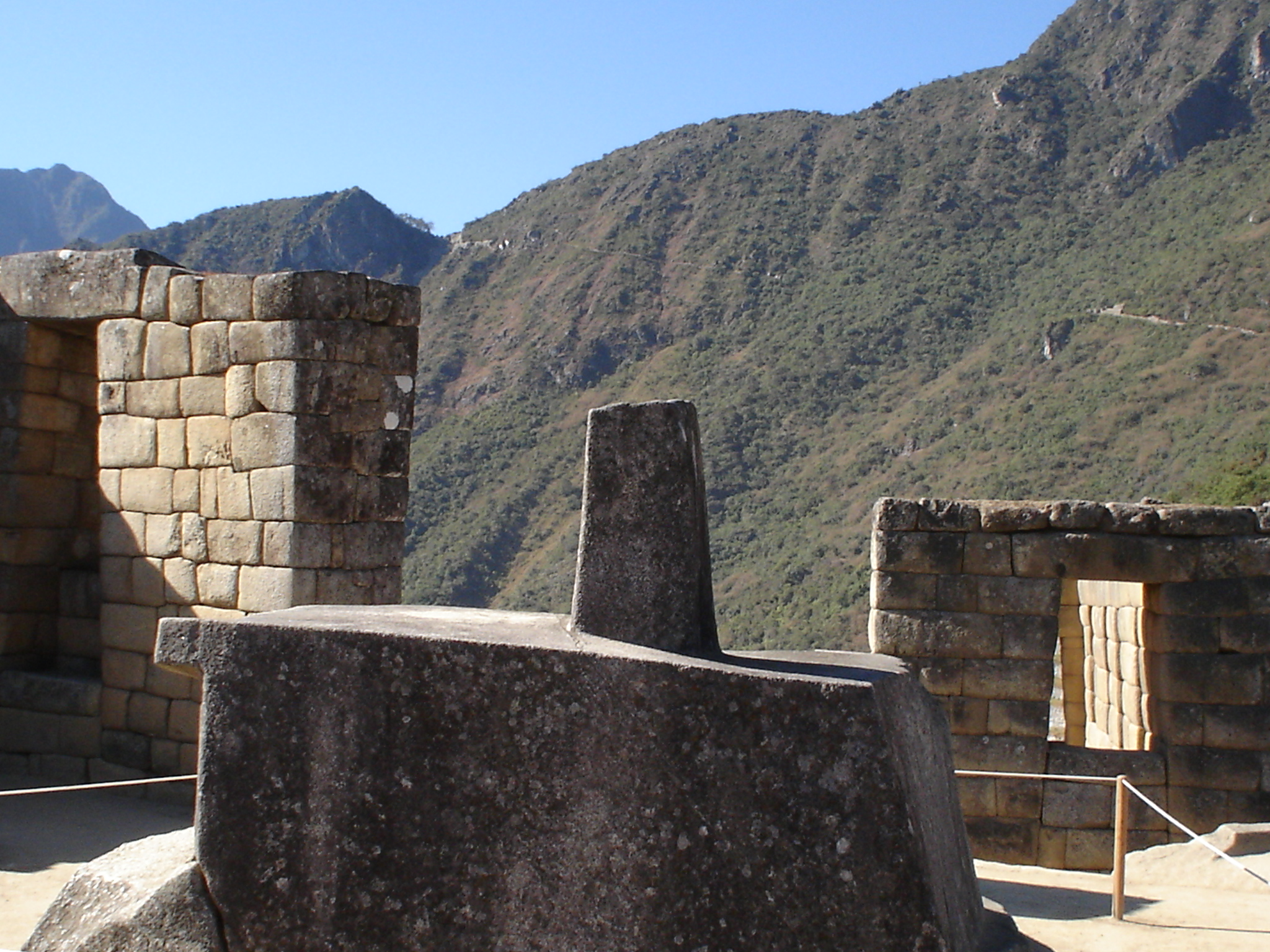 Intihuatana, a solar clock at Machu Picchu